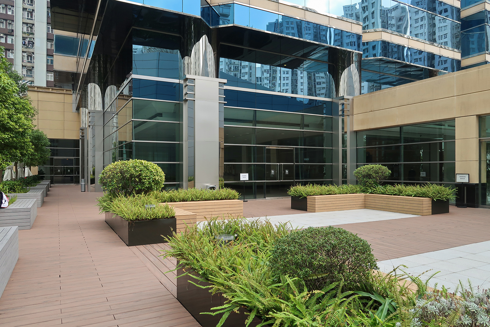 Cityplaza One Level 6 Garden